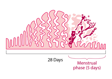 This diagram illustrates how the endometrium builds up and breaks down during the menstrual cycle.